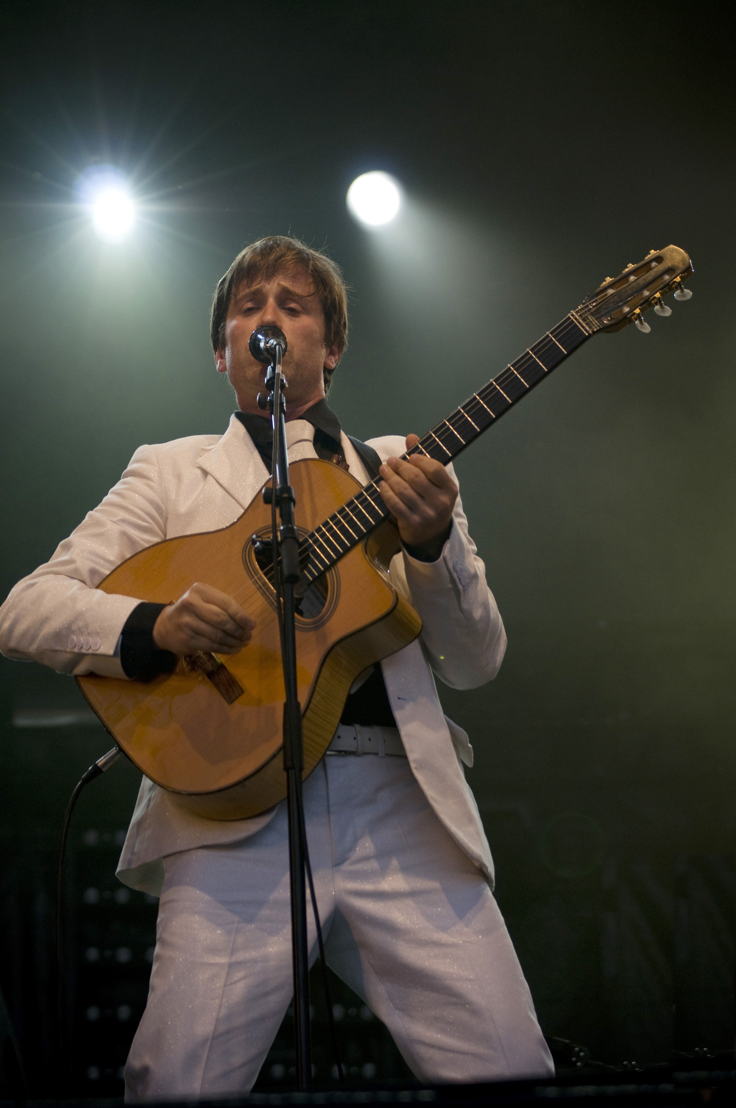 Thomas Dutronc live at Aux Zarbs festival 2008 (Auxerre, France).